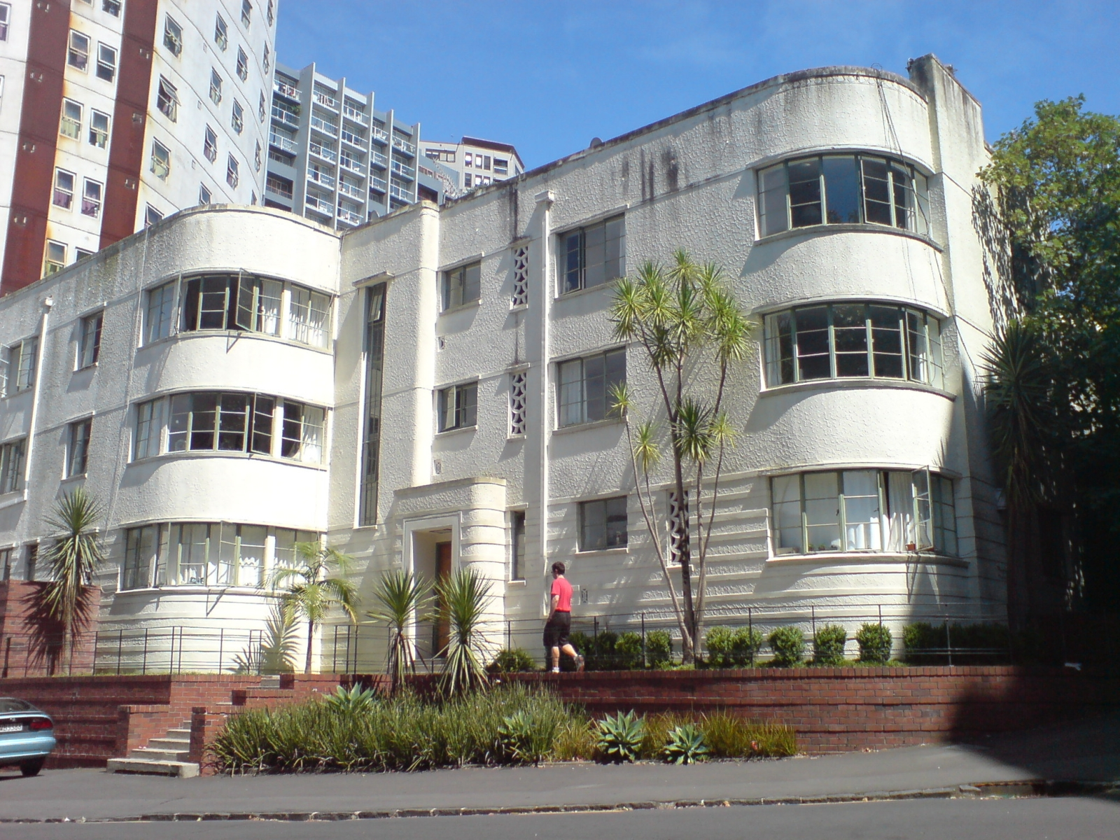 The 'Cintra Flats', Art Deco apartments some short distance off Symonds Street in Auckland, New Zealand.